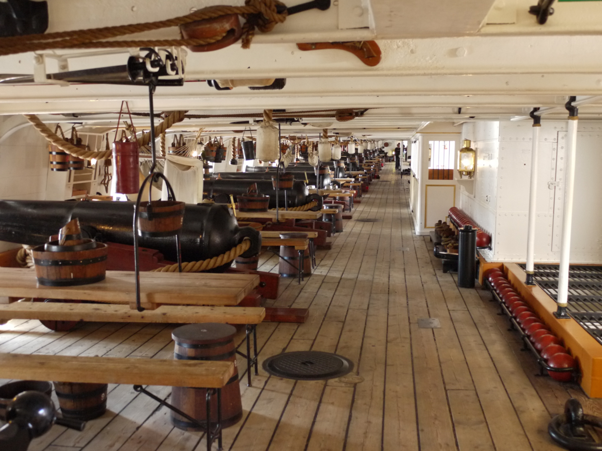 Photo of the gundeck on HMS Warrior. Mostly filled with Replica 68-pounder guns.